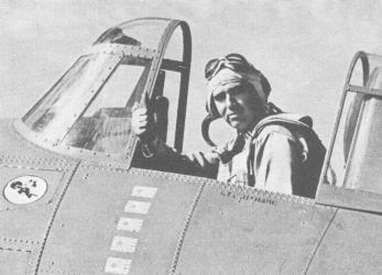 Lt. "Butch" O'Hare in a Grumman F4F-3 Wildcat at Naval Air Station, Kaneohe, Hawaii, 10 April 1942